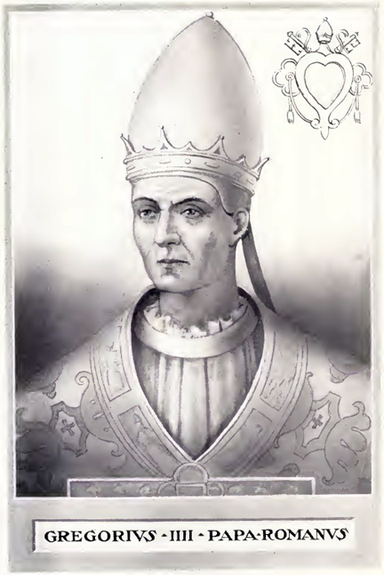 This illustration is from The Lives and Times of the Popes by Chevalier Artaud de Montor, New York: The Catholic Publication Society of America, 1911. It was originally published in 1842.